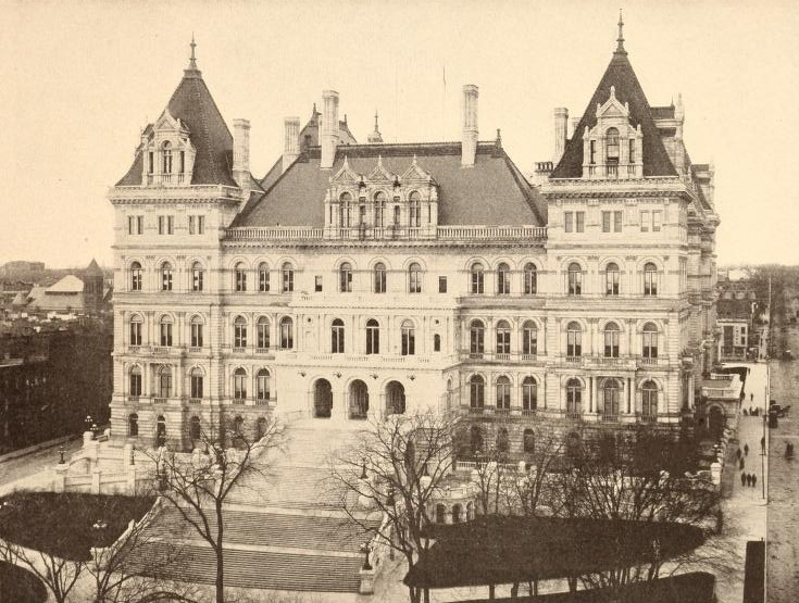 A photograph of the New York State Capitol in Albany, published in 1900